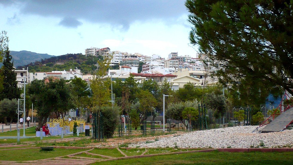 The picture depicts the Patima Hill.